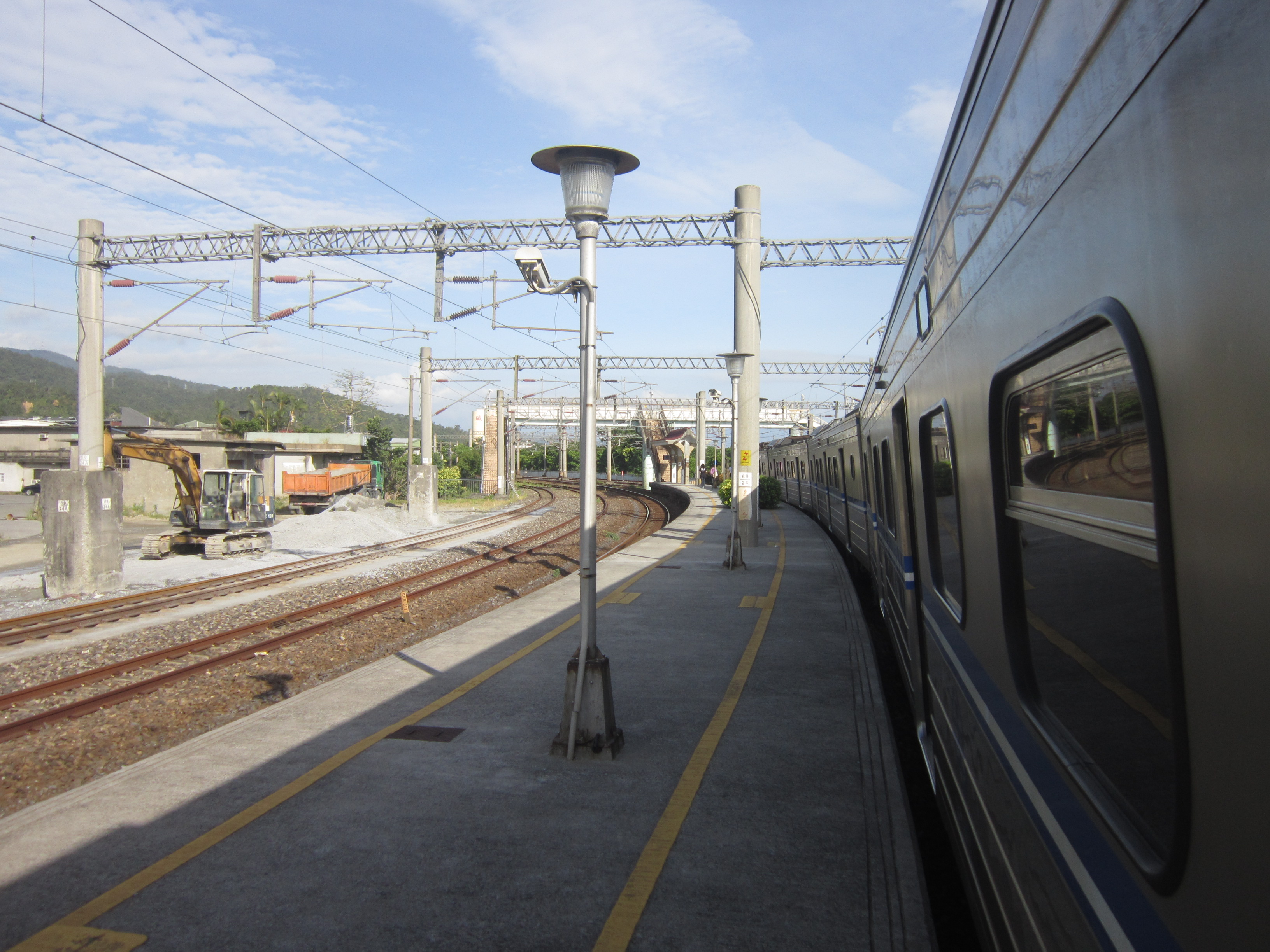 Xinma Station_Platform